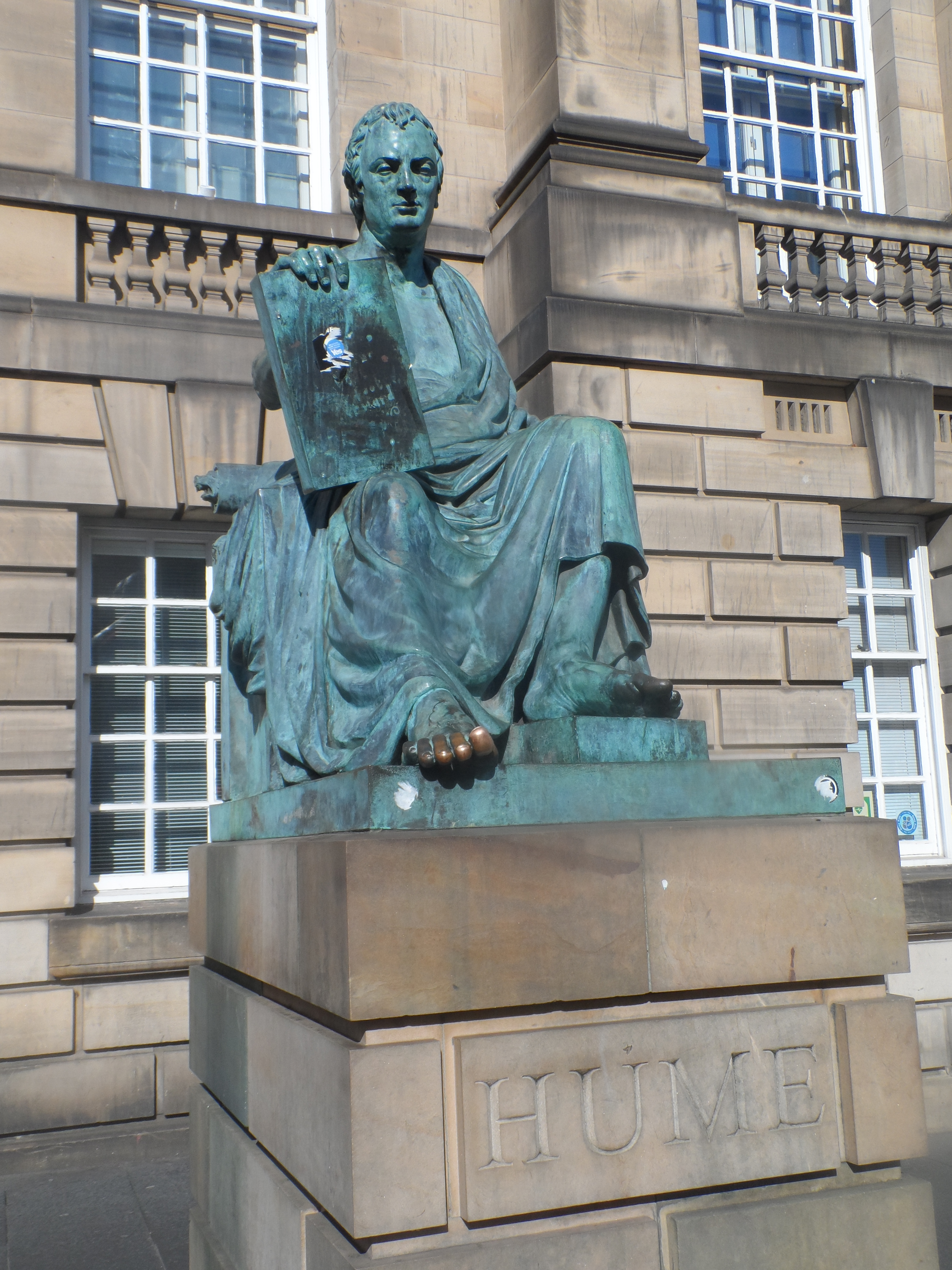 John Hume statue, Edinburgh